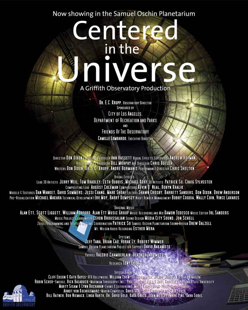 Poster for Griffith Observatory show Centered in the Universe